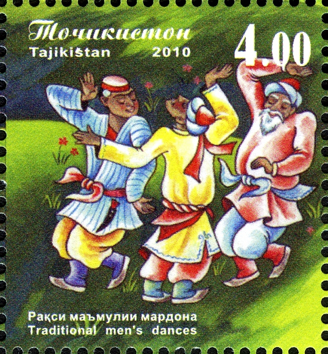 Stamps of Tajikistan, 2010